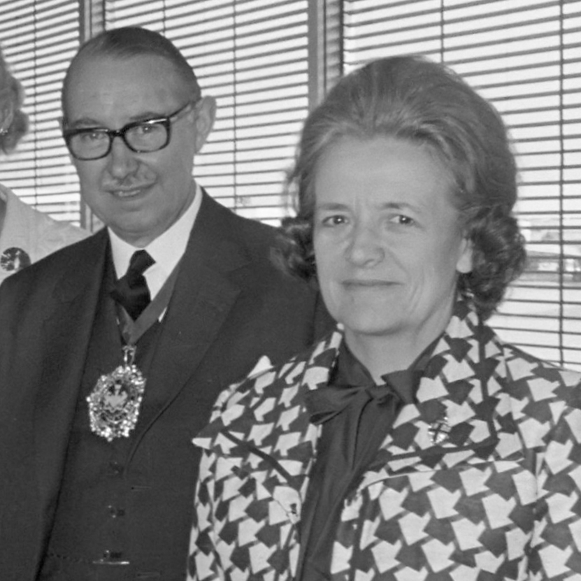 Burgemeester van Londen, Lord Mais en echtgenote op Schiphol aangekomen voor bezoek aan Amsterdam 27 mei 1973